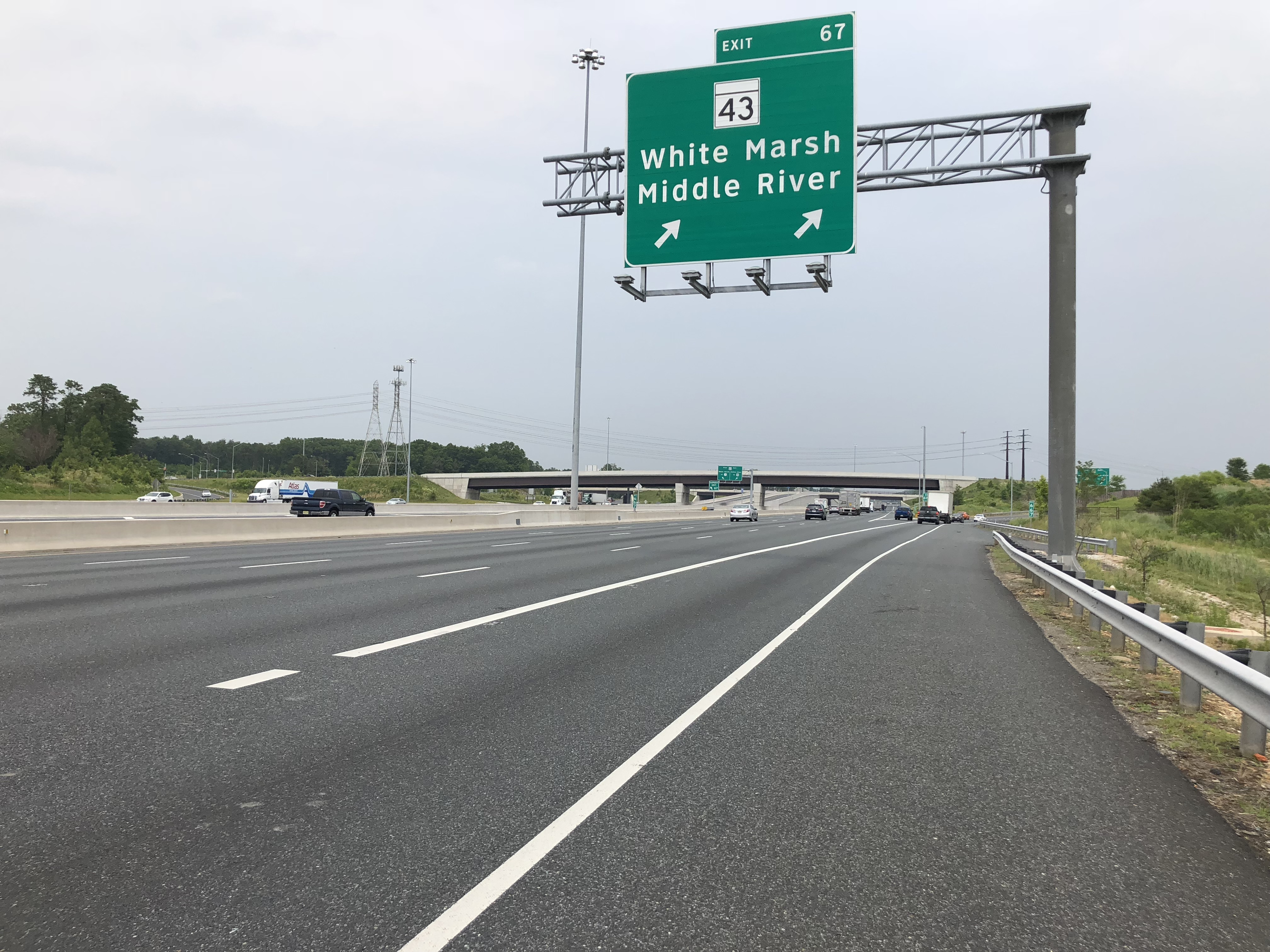 View north along Interstate 95 (J.F.K. Memorial Highway) at Exit 67 (Maryland State Route 43, White Marsh, Middle River) in White Marsh, Baltimore County, Maryland